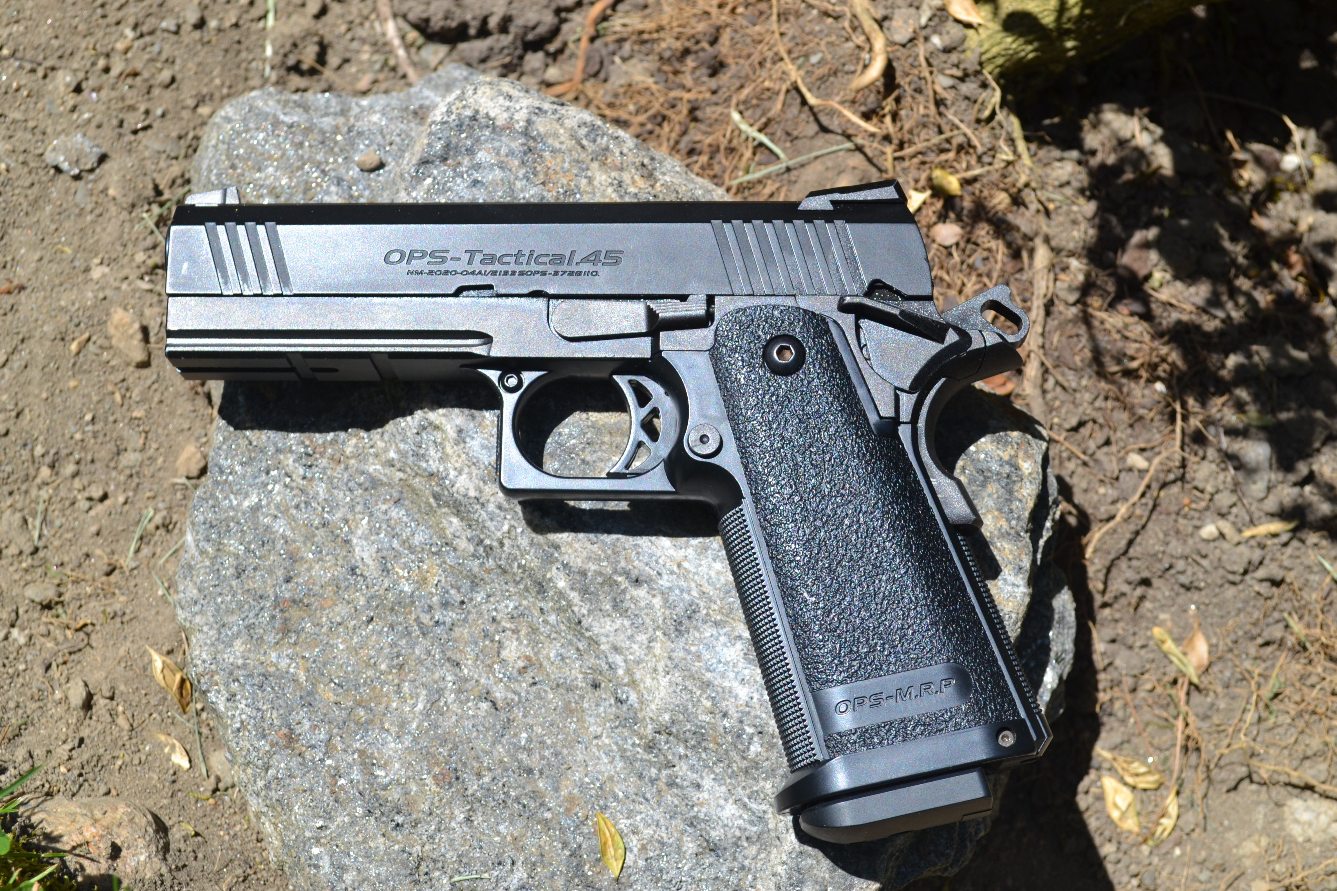 A Tokyo Marui Hi-Capa 4.3 Gas Blowback airsoft handgun.